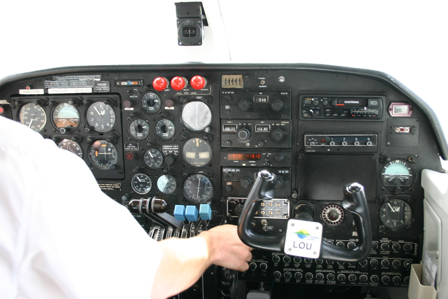 At Auckland